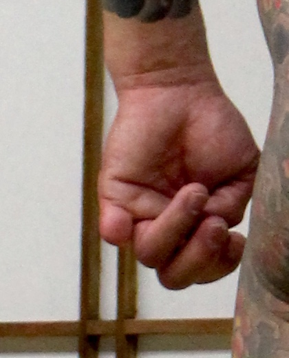 Yubitsume (指詰め) Beautiful example of Yubitsume, thanks to S's lens.